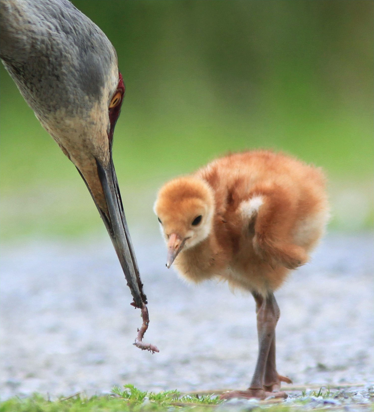 A parent Sandhill Crane feeding a chick in British Columbia, Canada.